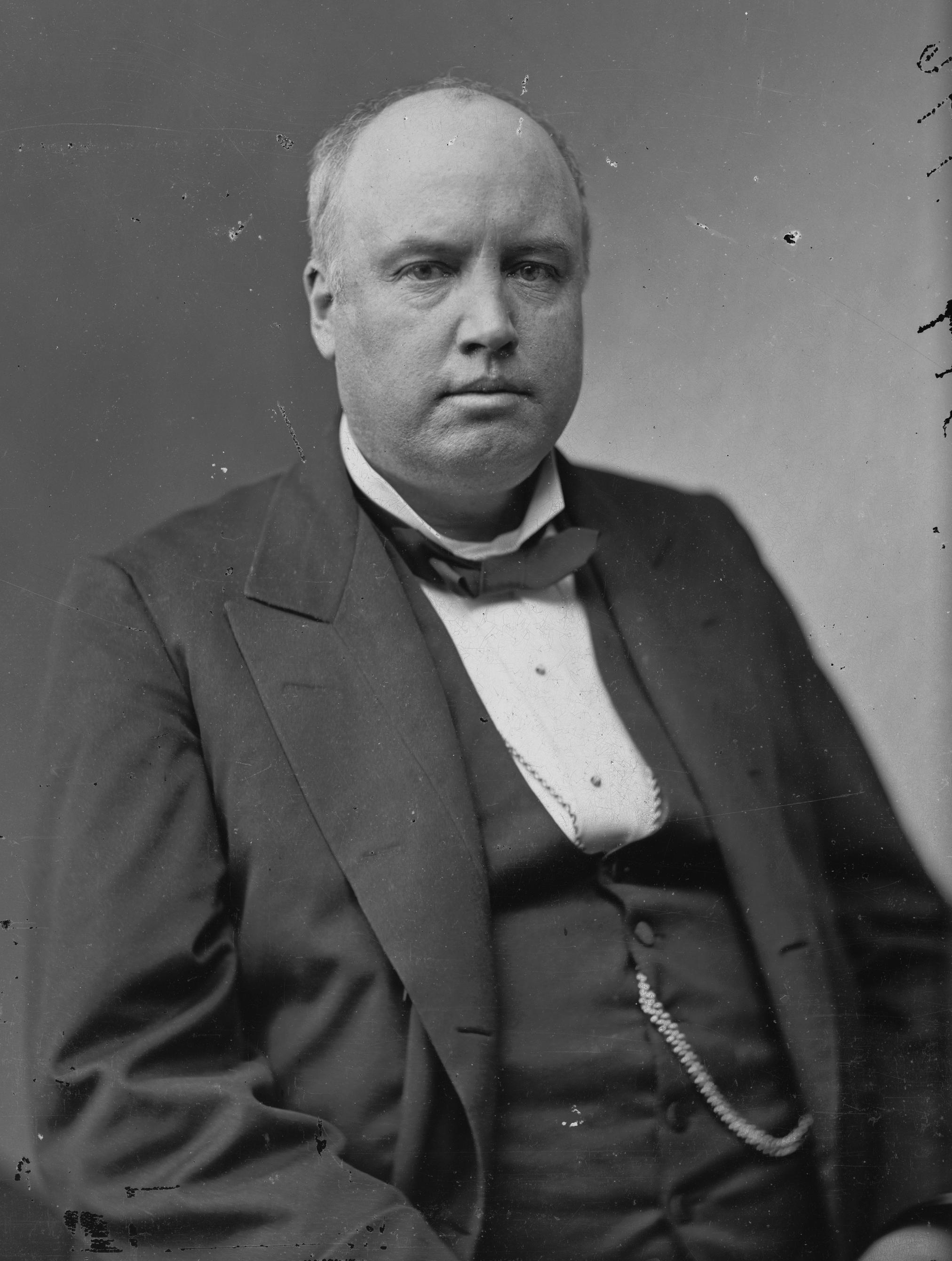 Robert G. Ingersoll. Library of Congress description: "Ingersoll, Robert (The Infidel)".